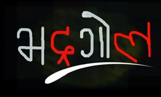 Intertile logo of Bhadragol nepal